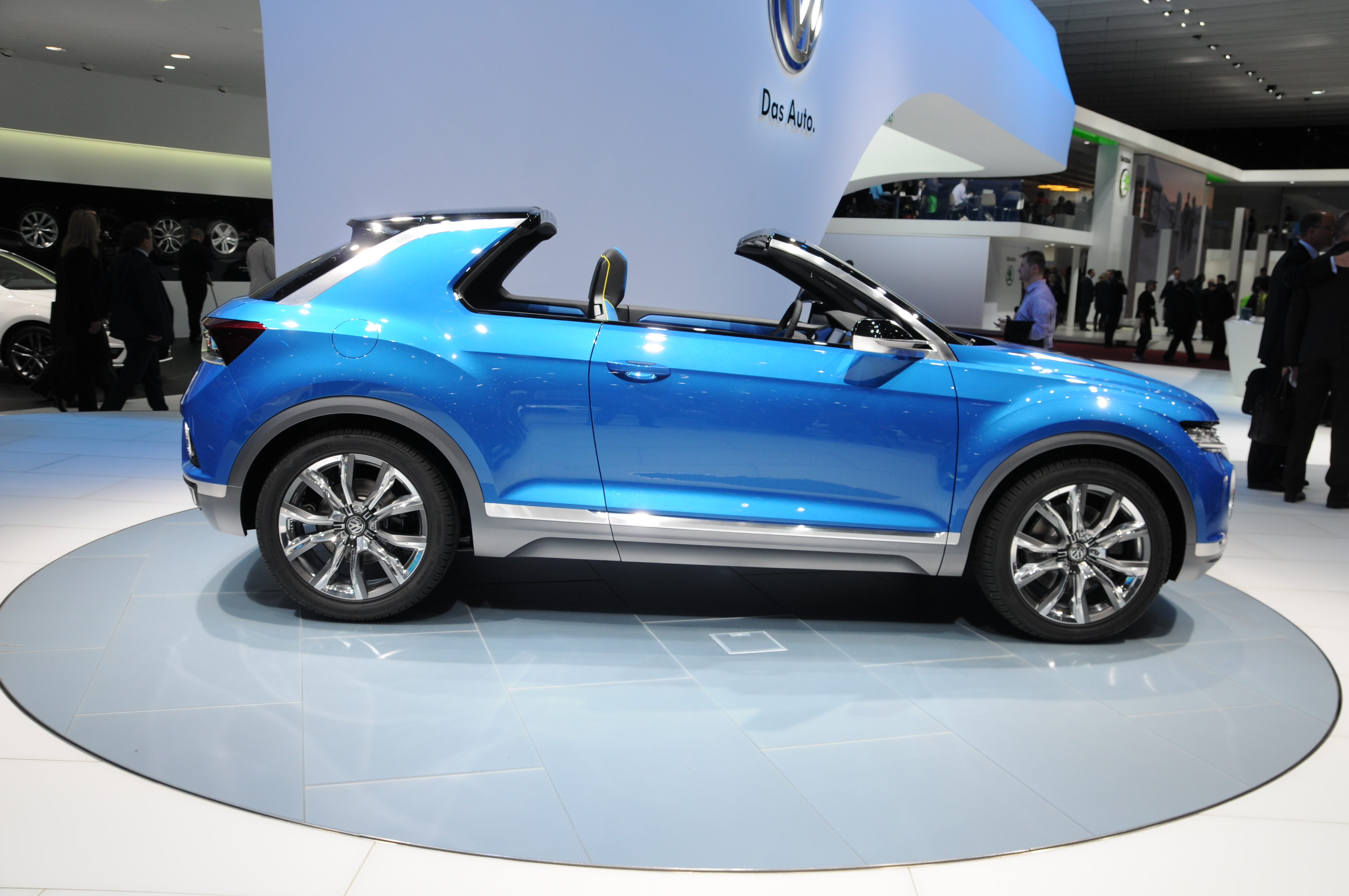 Geneva Motor Show 2014 (photo taken on the first press day)